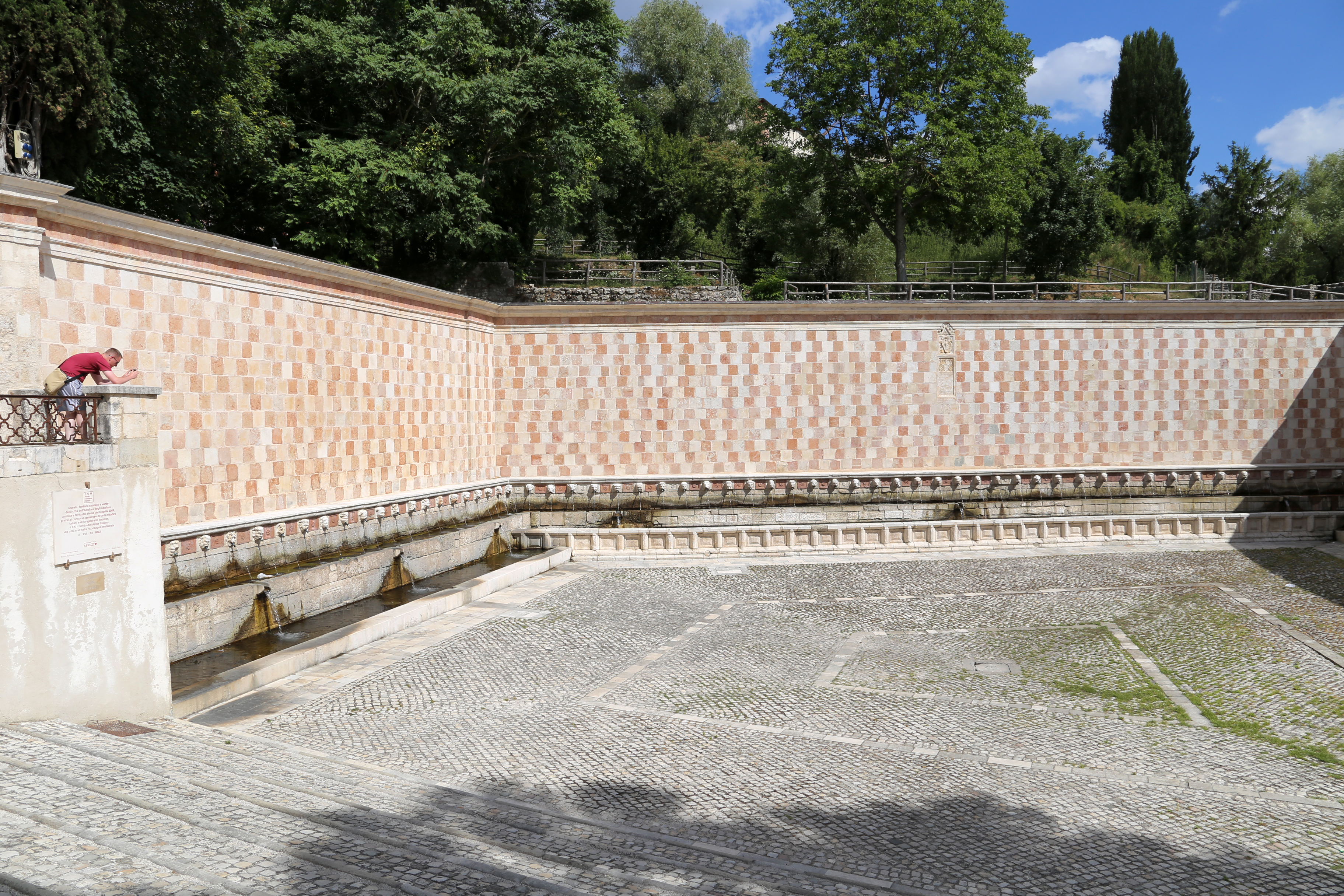 Fontana delle 99 cannelle (L'Aquila)